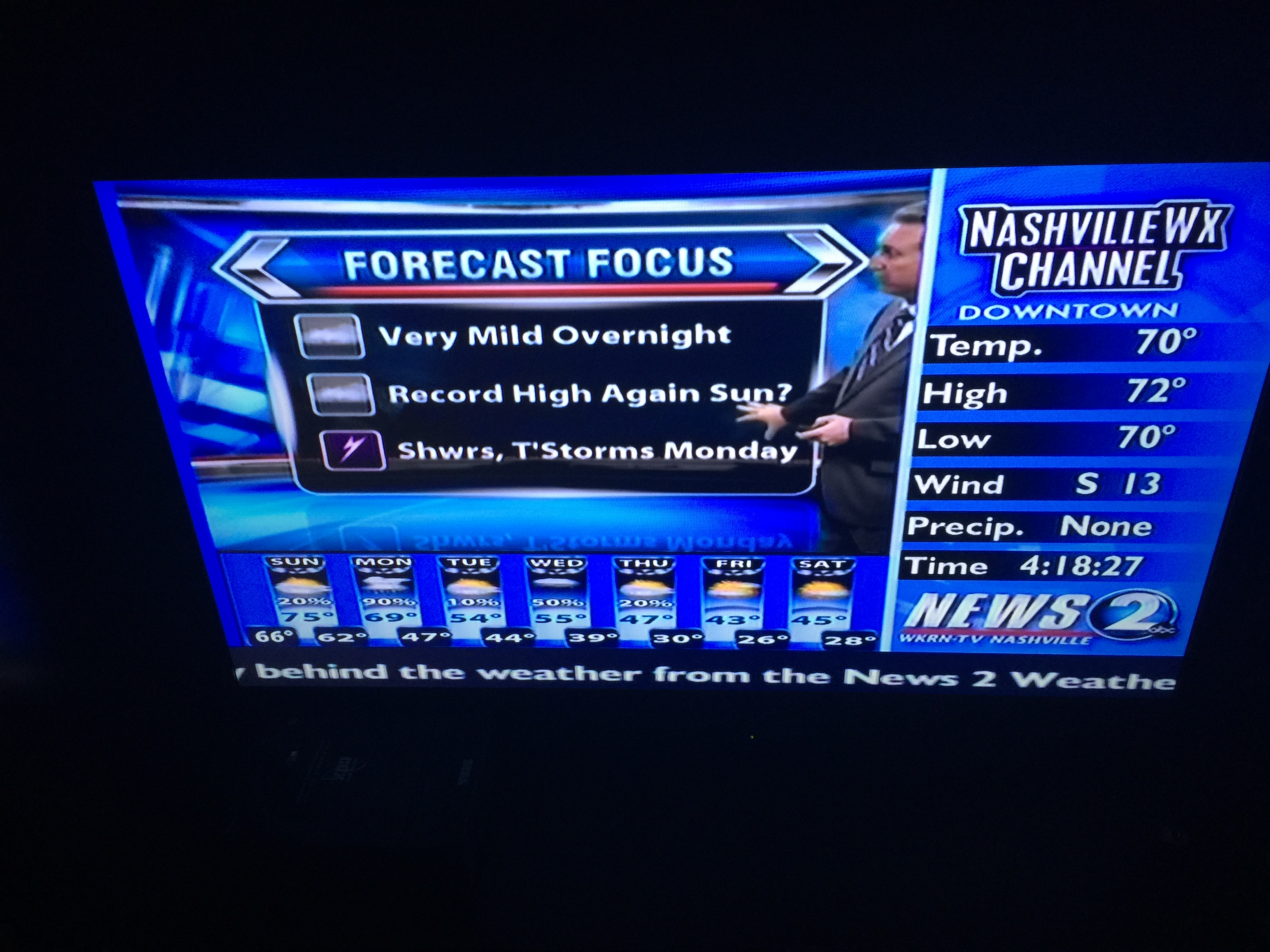 WKRN-DT2 as Nashville WX Channel on December 27, 2015 at 4:18 am.